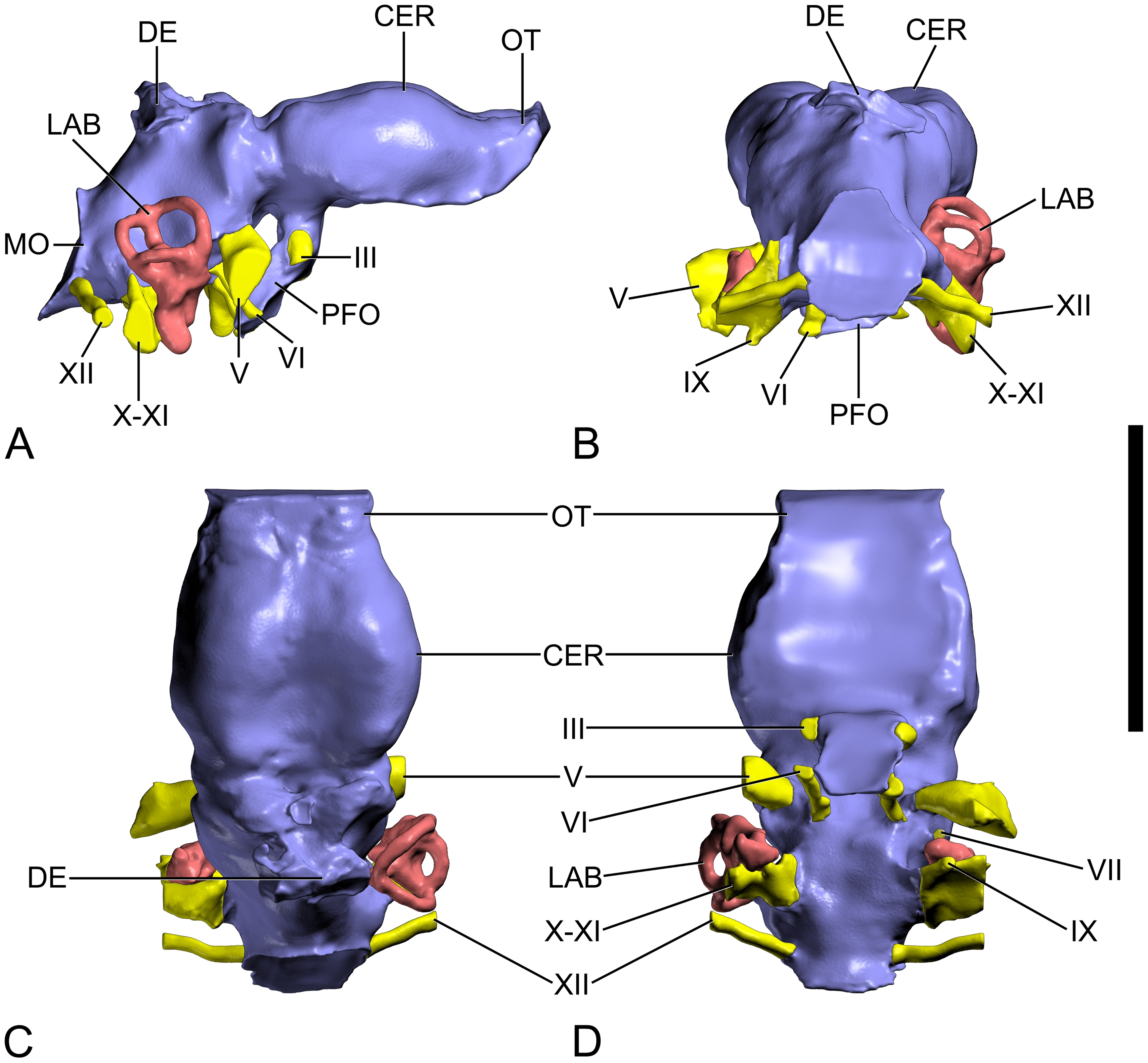 Surface-rendered CT-based images of the cranial endocast and endosseous labyrinth of the titanosaurian sauropod Ampelosaurus sp. (MCCM-HUE-8741) from the Cretaceous of Fuentes, Spain. In right lateral (A), caudal (B), dorsal (C), and ventral (D) views. Abbreviations: CER, cerebrum; DE, dural expansion; III, oculomotor nerve; IX, glossopharyngeal nerve; LAB, labyrinth; MO, medulla oblongata; OT, olfactory tract; PFO, pituitary fossa; V, trigeminal nerve; VI, abducens nerve; VII, facial nerve; X-XI, vagoaccessory nerve; XII, hypoglossal nerve. Scale bar equals 5 cm.